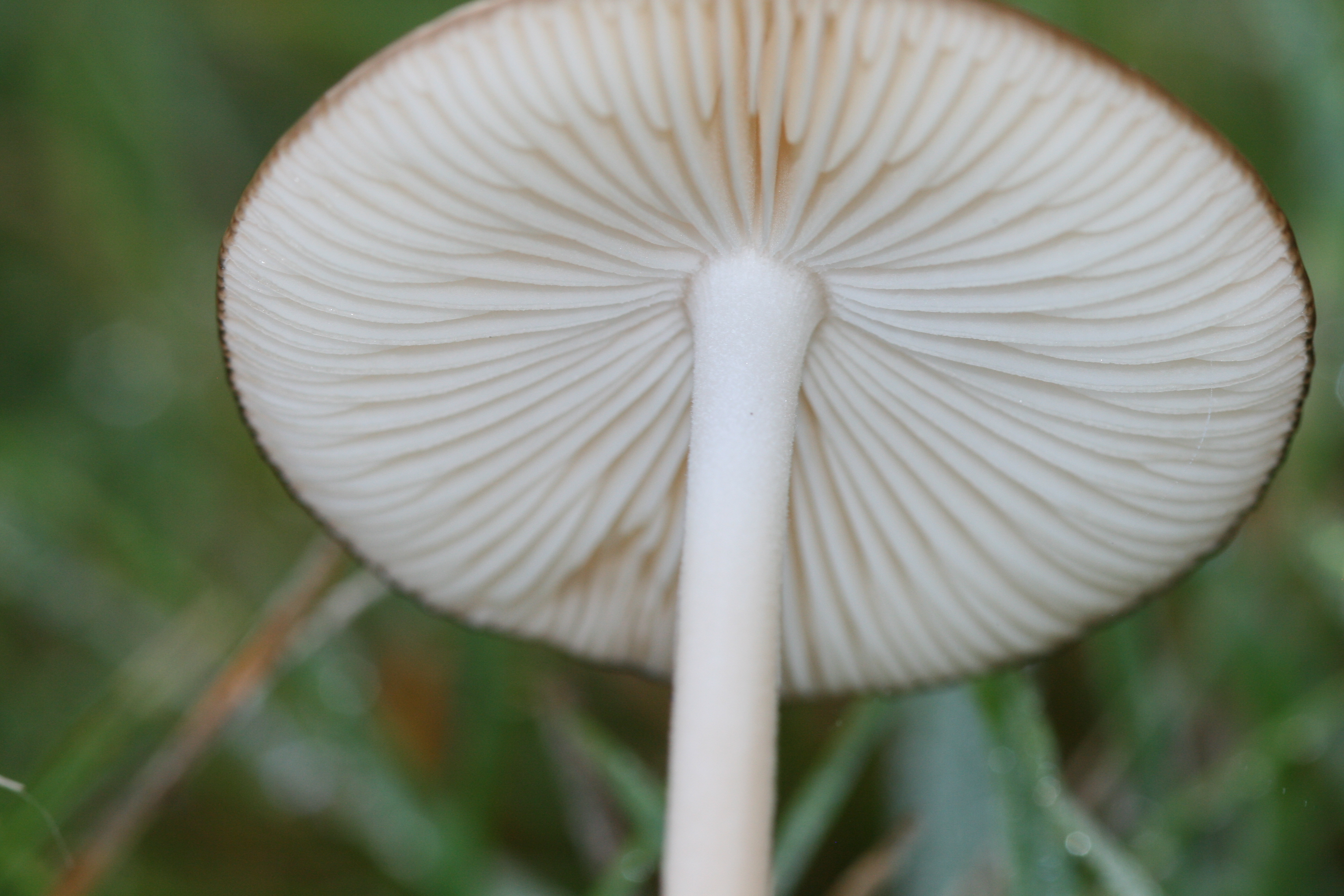 Xerula australis near Toowoomba, Queensland, Australia. Photographed on 15 April 2009.